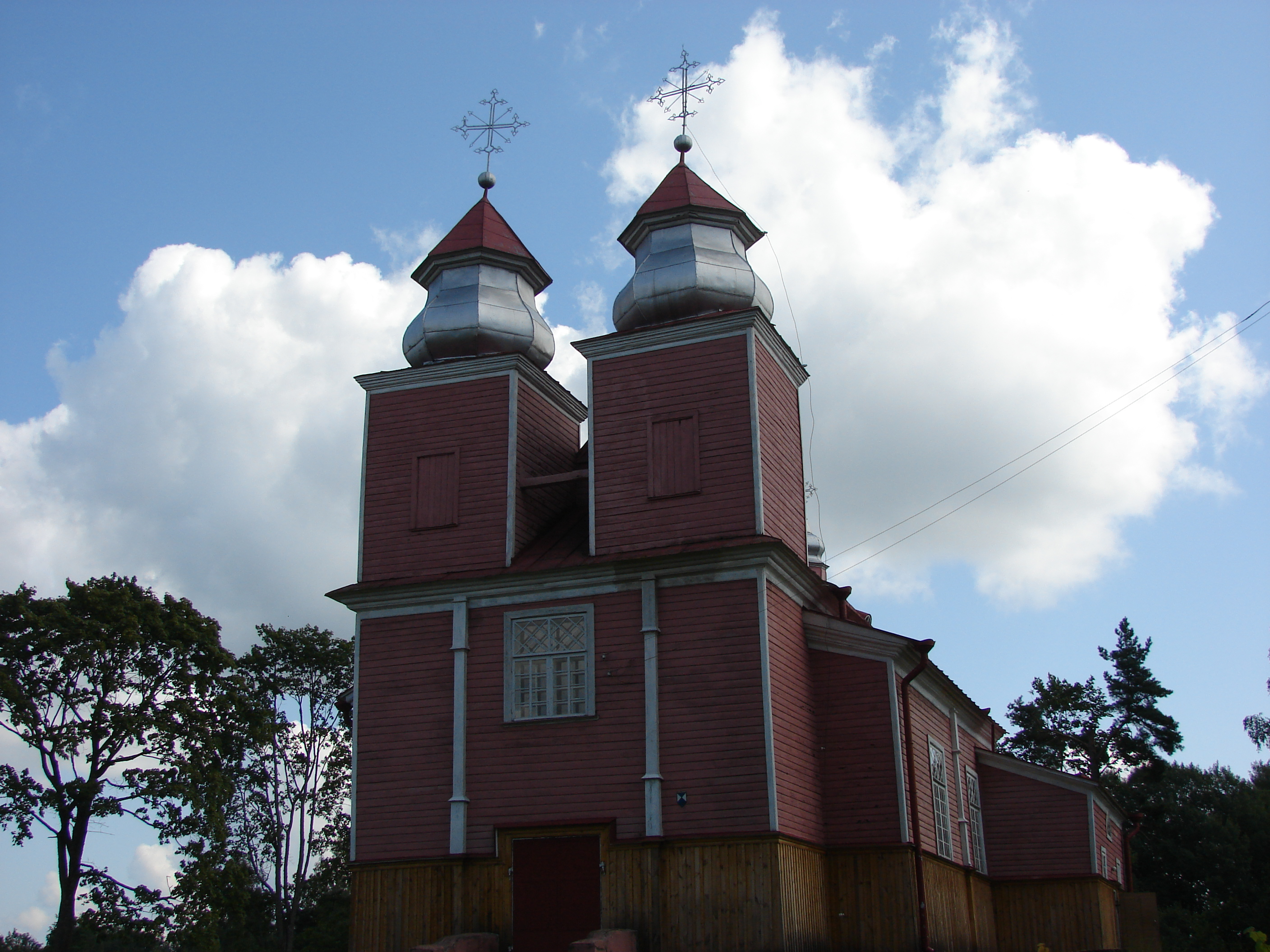 Roman Catholic church in Feimaņi, Latvia